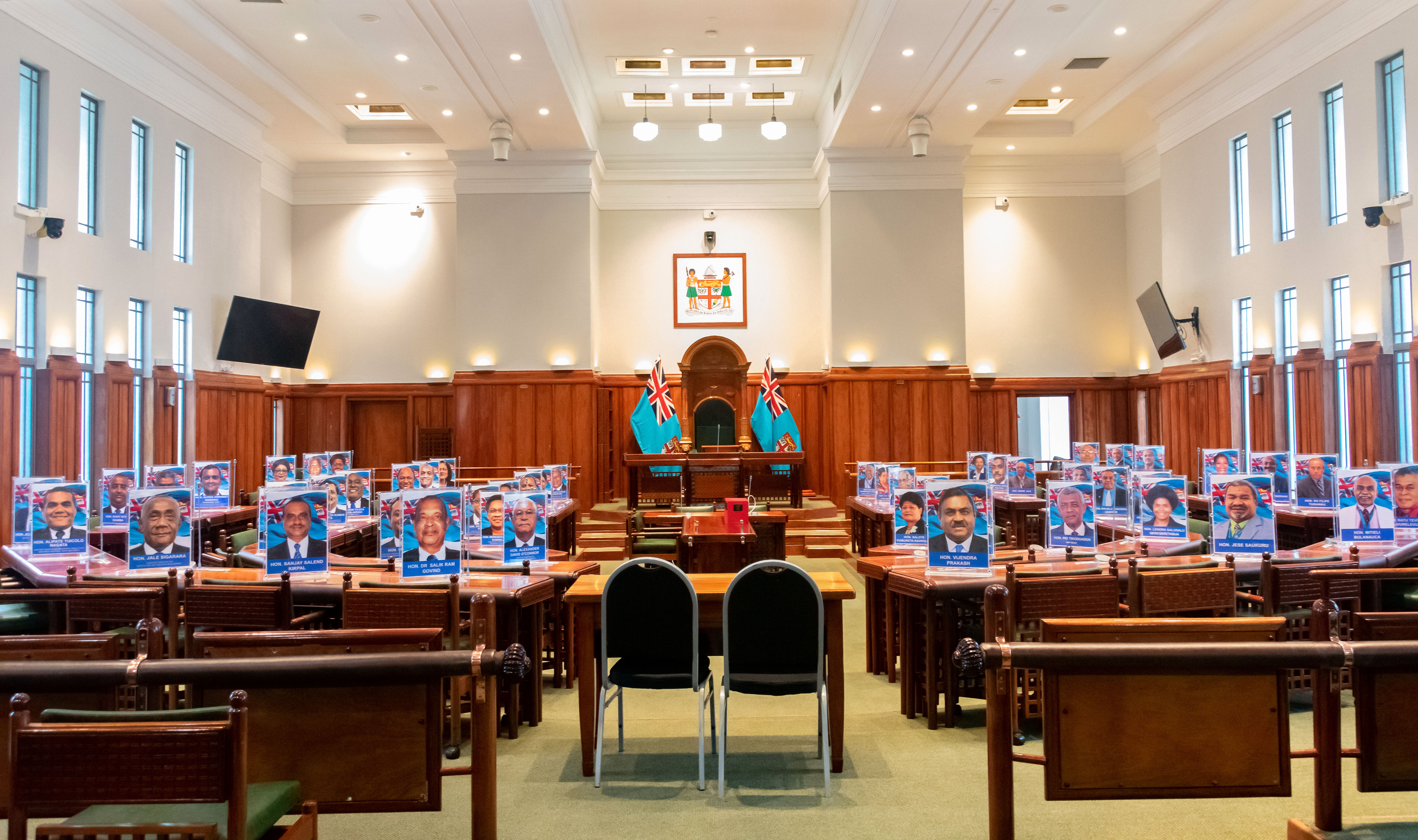 Chambers of the Parliament of the Republic of Fiji where Members of Parliament sit to debate, pass legislation and undertake other parliamentary functions.